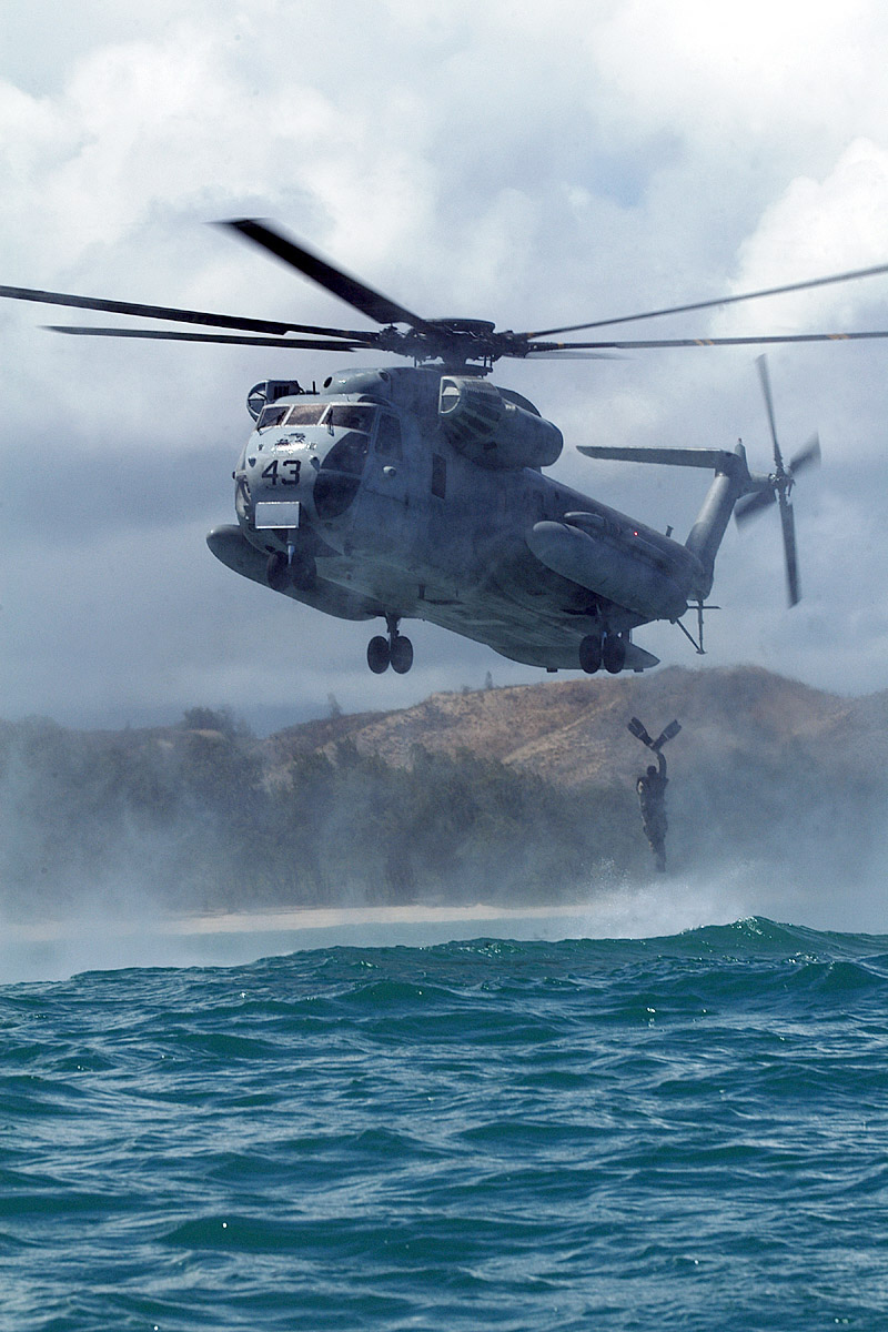 060914-M-9057K-011 Pacific Ocean off Hawaii - Marines assigned to the 15th Marine Expeditionary Unit 1st Force Reconnaissance Company, conduct a helo-cast from a CH-53D Sea Stallion off the coast of Hawaii followed by a 750 meter swim. The helo-cast is one of the many ways the Marines can be stealthily inserted into an objective. (RELEASED)